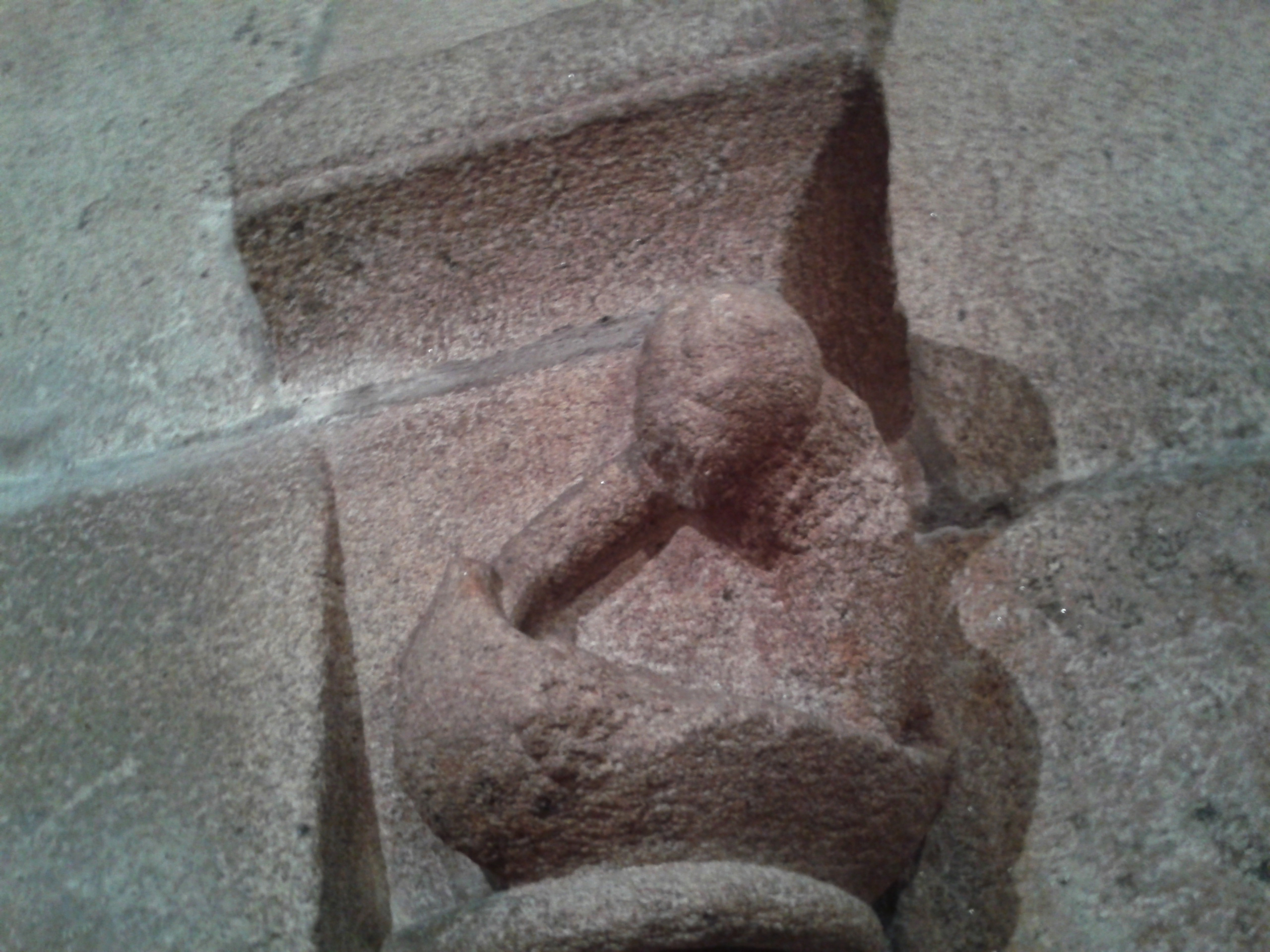 The Boat in the 12th century São Cristóvão de Rio Mau Monastery